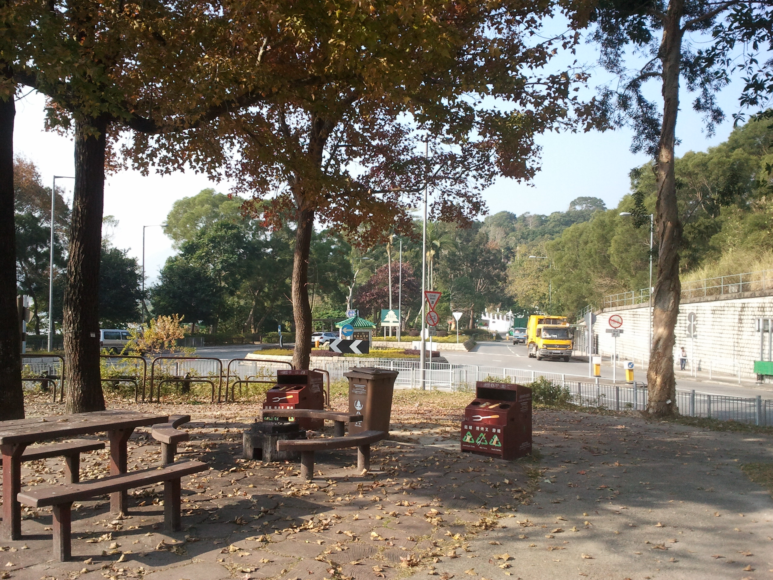 Mak Pin Roundabout